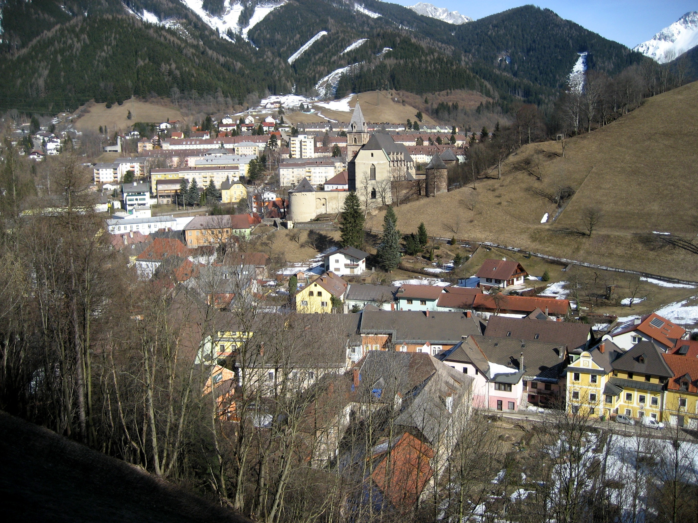 Eisenerz, a city in Styria, Austria, Europe